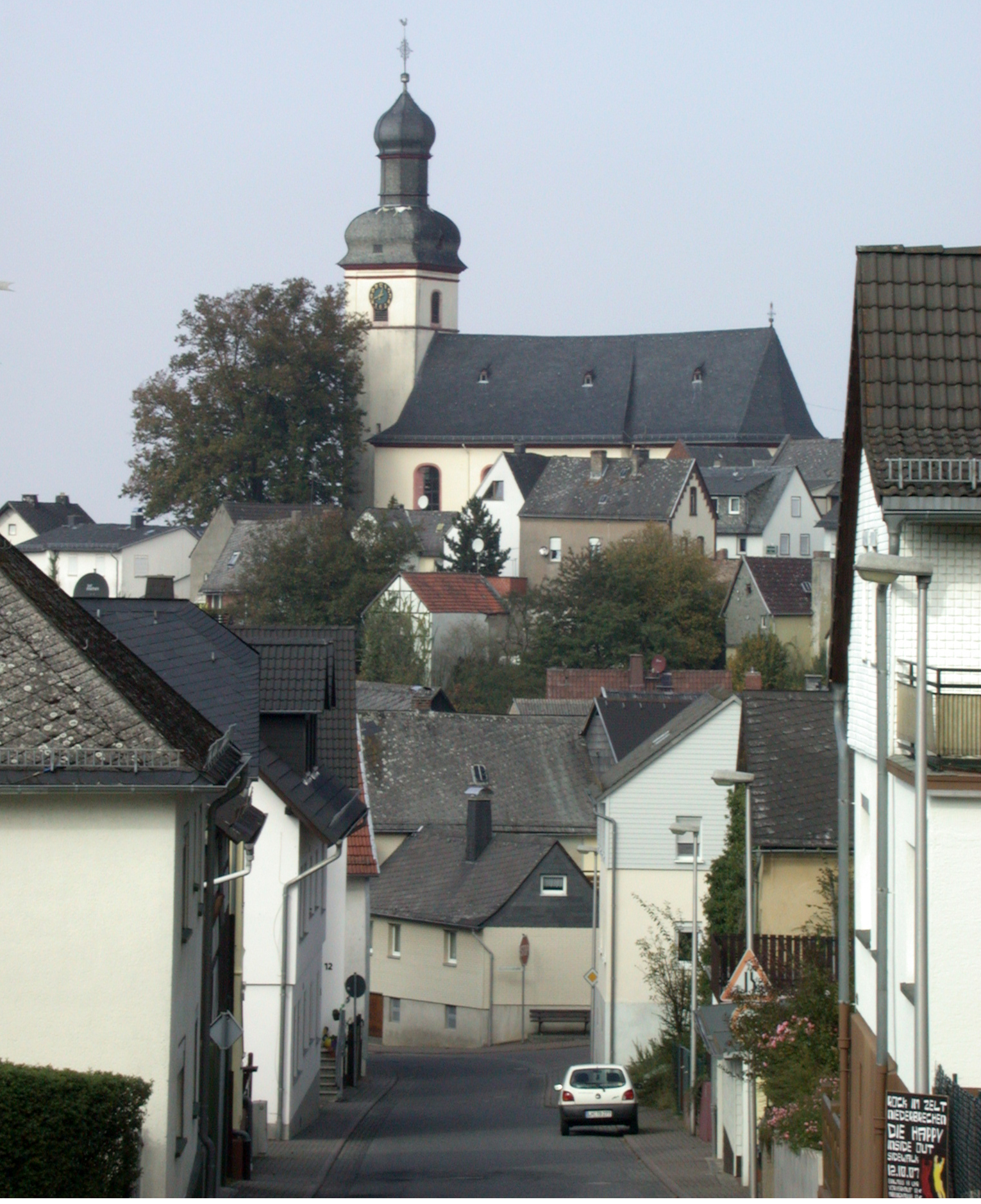 View of Haintchen, a village in the municipality of Selters (Taunus), Hessia, Germany. In the background lies the St. Nicholas Church.